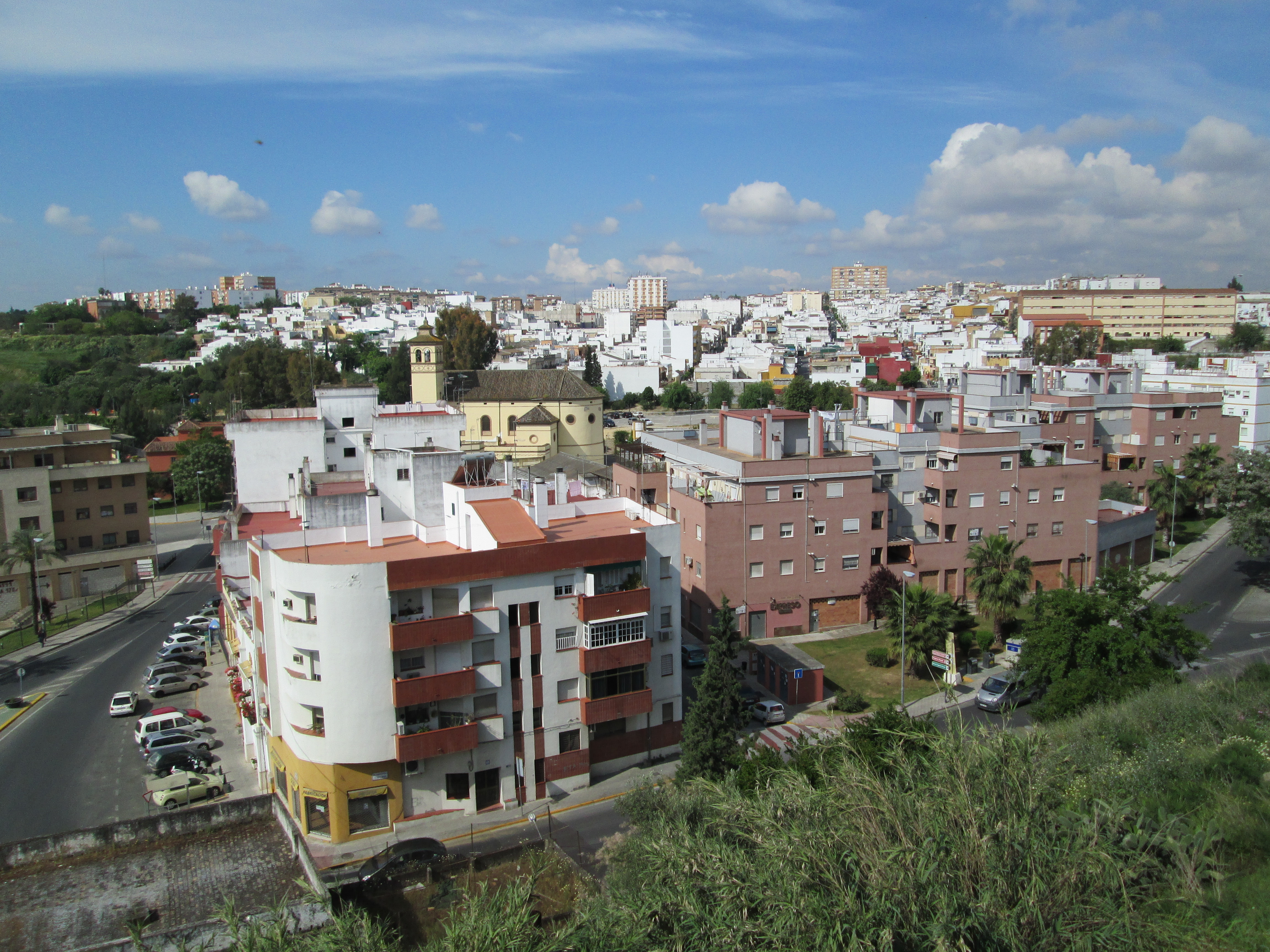 San Juan de Aznalfarache